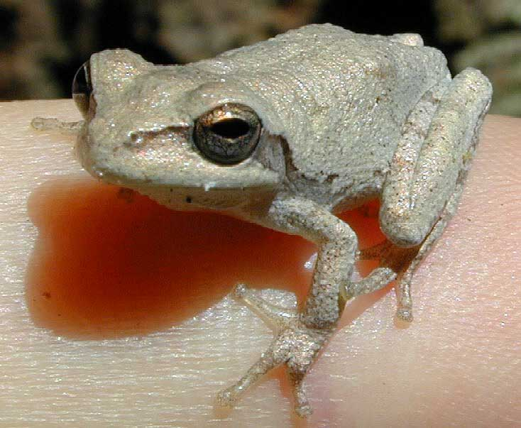 Pinewoods Treefrog (Hyla femoralis)